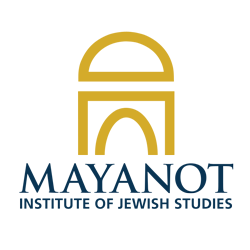 Official Mayanot Institute of Jewish Studies Logo